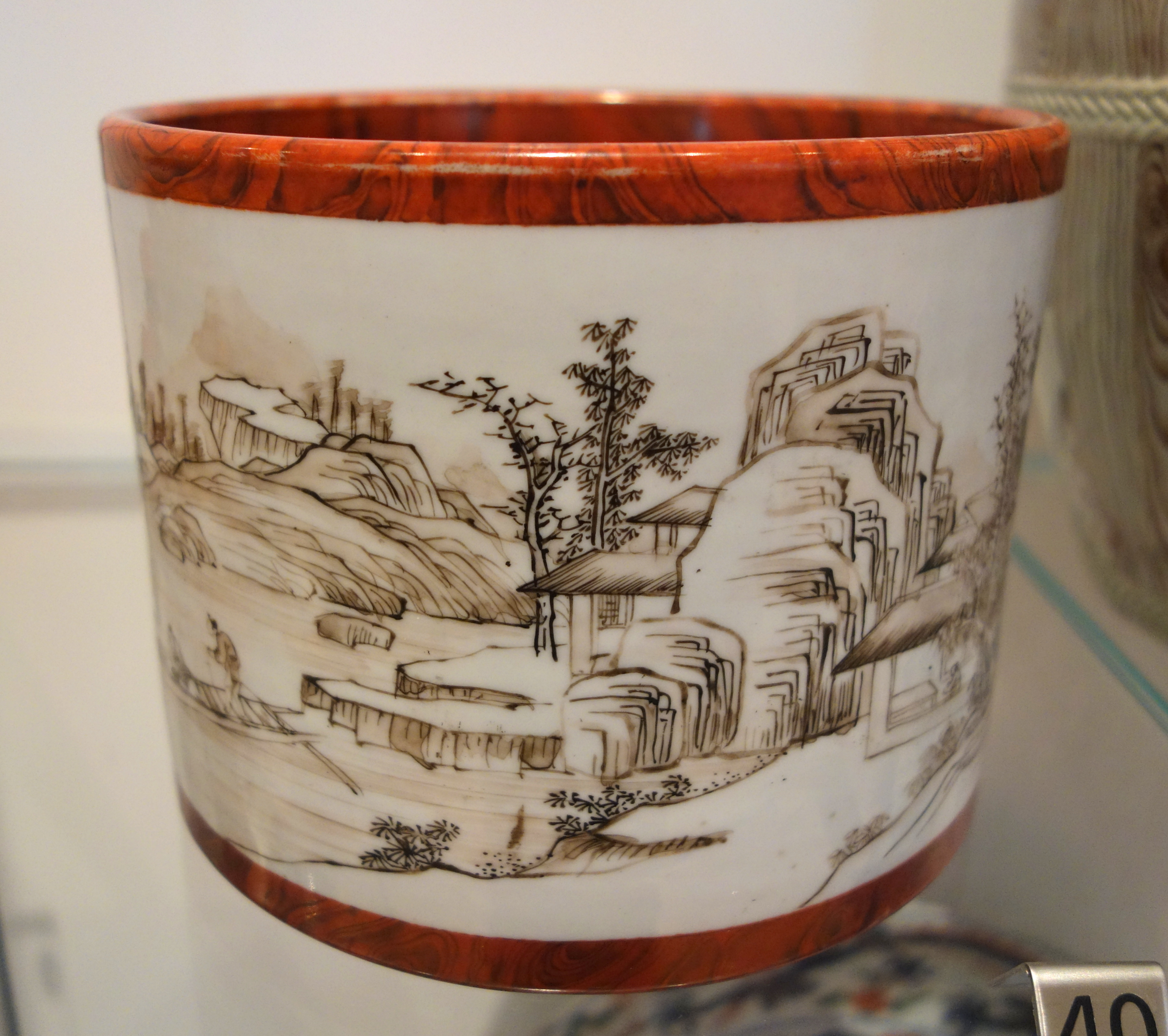 Exhibit in the Royal Ontario Museum, Toronto, Ontario, Canada. This work is old enough so that it is in the public domain.